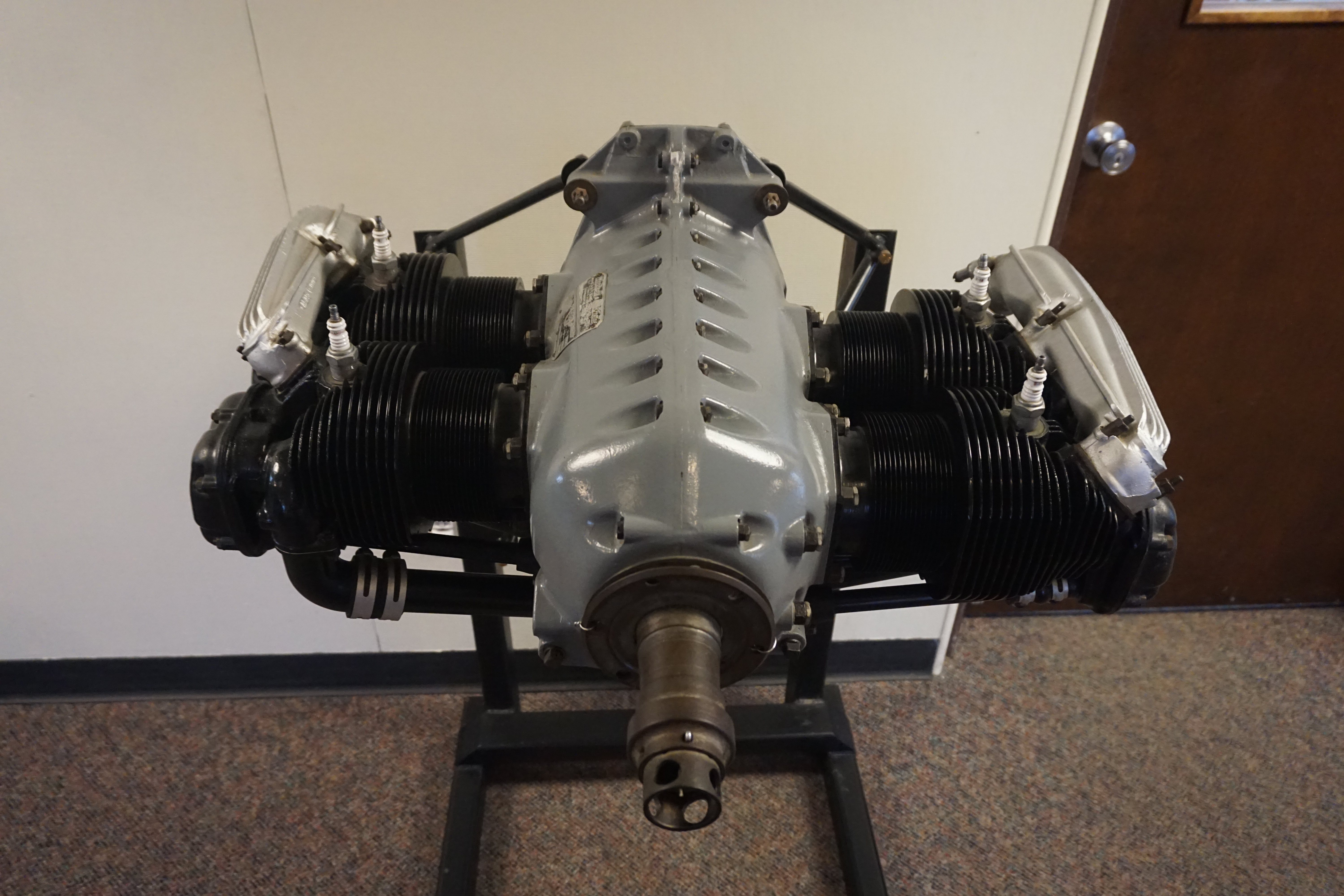 A Continental A-50 on display at the Air Zoo at Kalamazoo/Battle Creek International Airport in Portage, Michigan (United States).